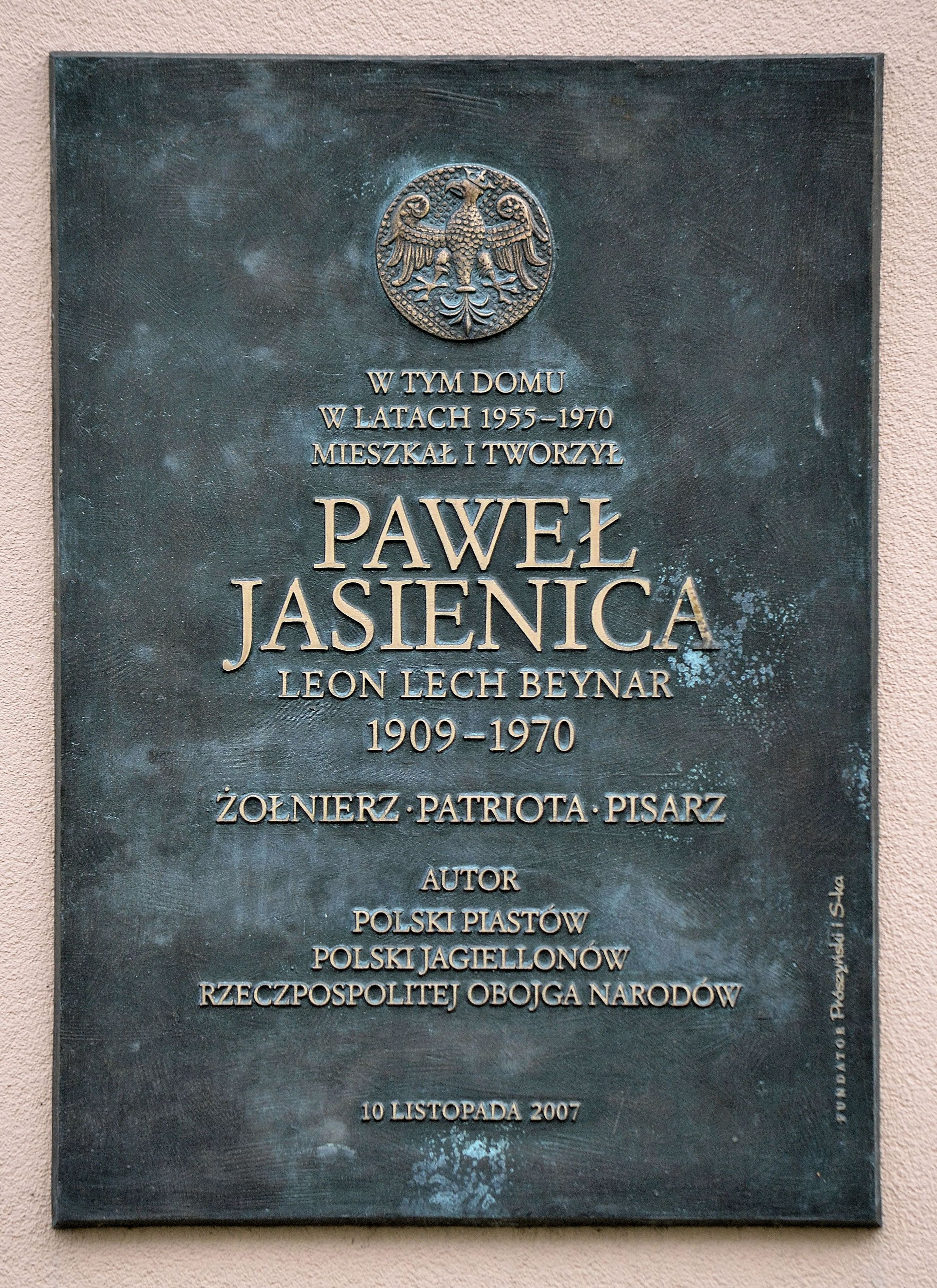 Plaque commemorating Paweł Jasienica at 75B Dąbrowski Street in Warsaw